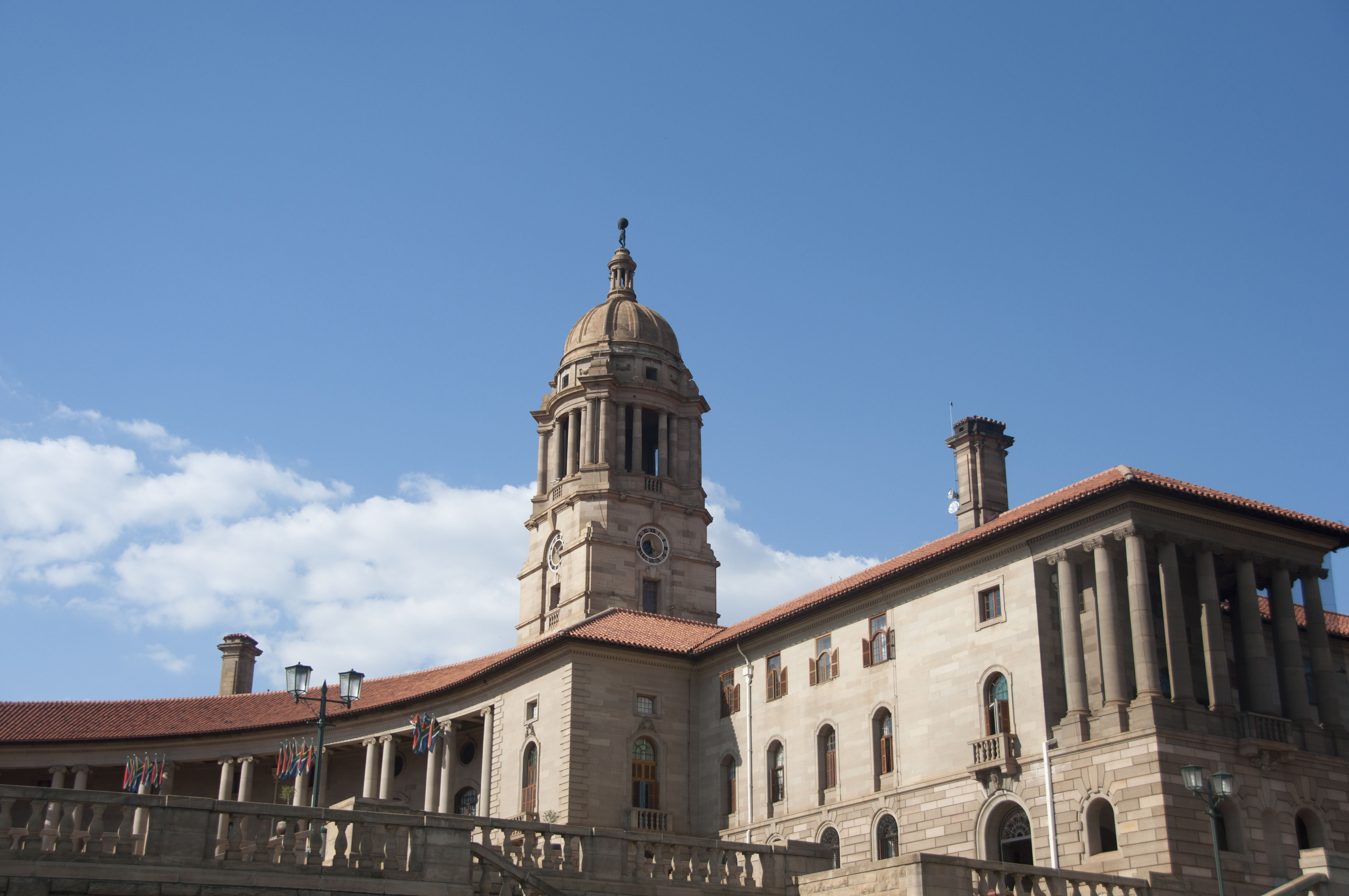 The Eastern wing of The Union Buildings representing the English population of South Africa This media shows a South African Protected Site with SAHRA file reference 9/2/258/0067.